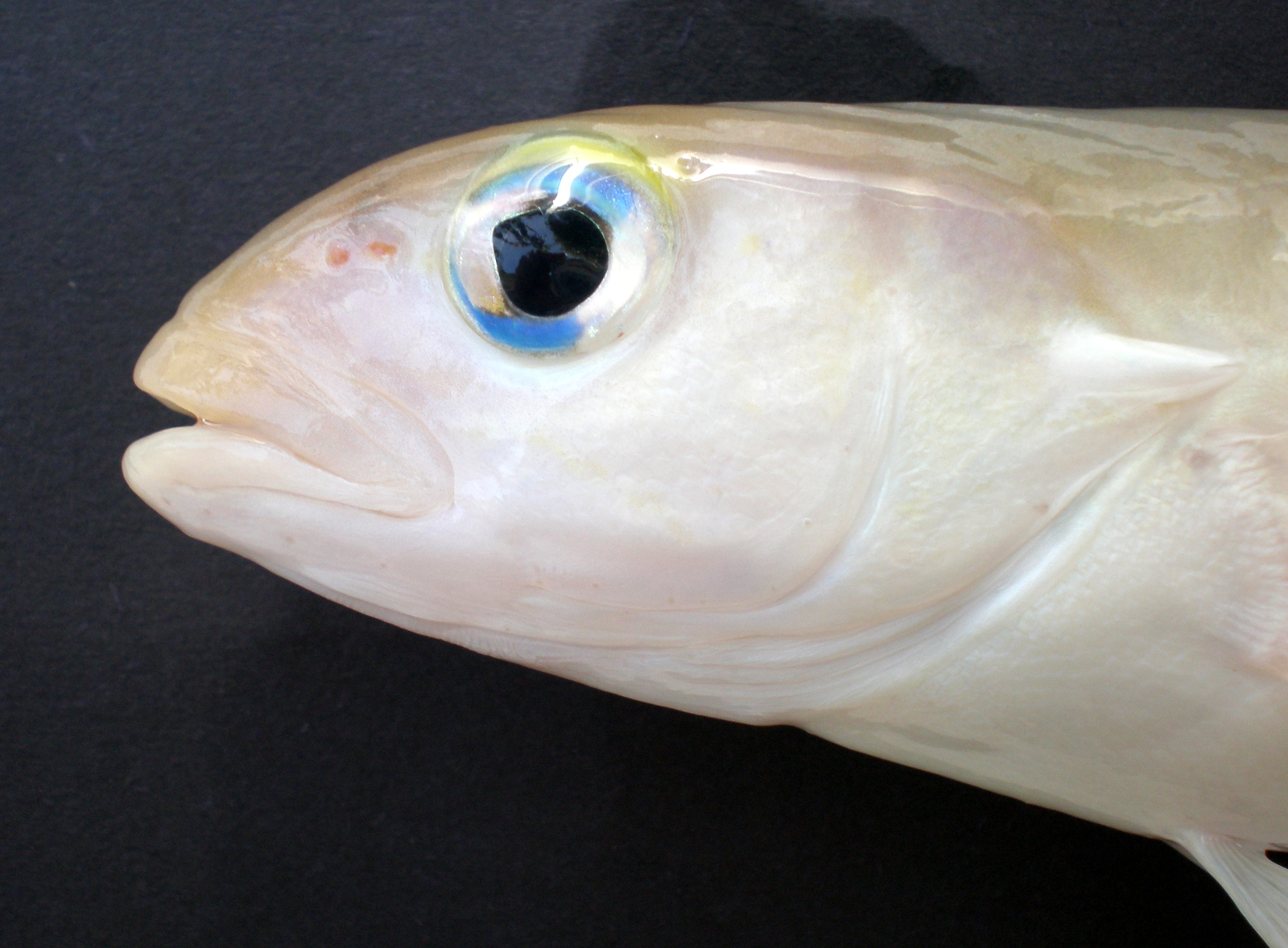 Malacanthus brevirostris. From off Nouméa, New Caledonia